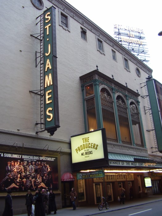 St. James Theatre, NYC 2006. Photo by Mademoiselle Sabina